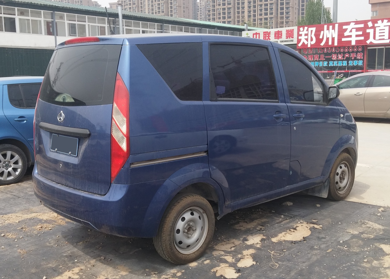 Chana CM8 photographed in Zhengzhou, Henan province, China.